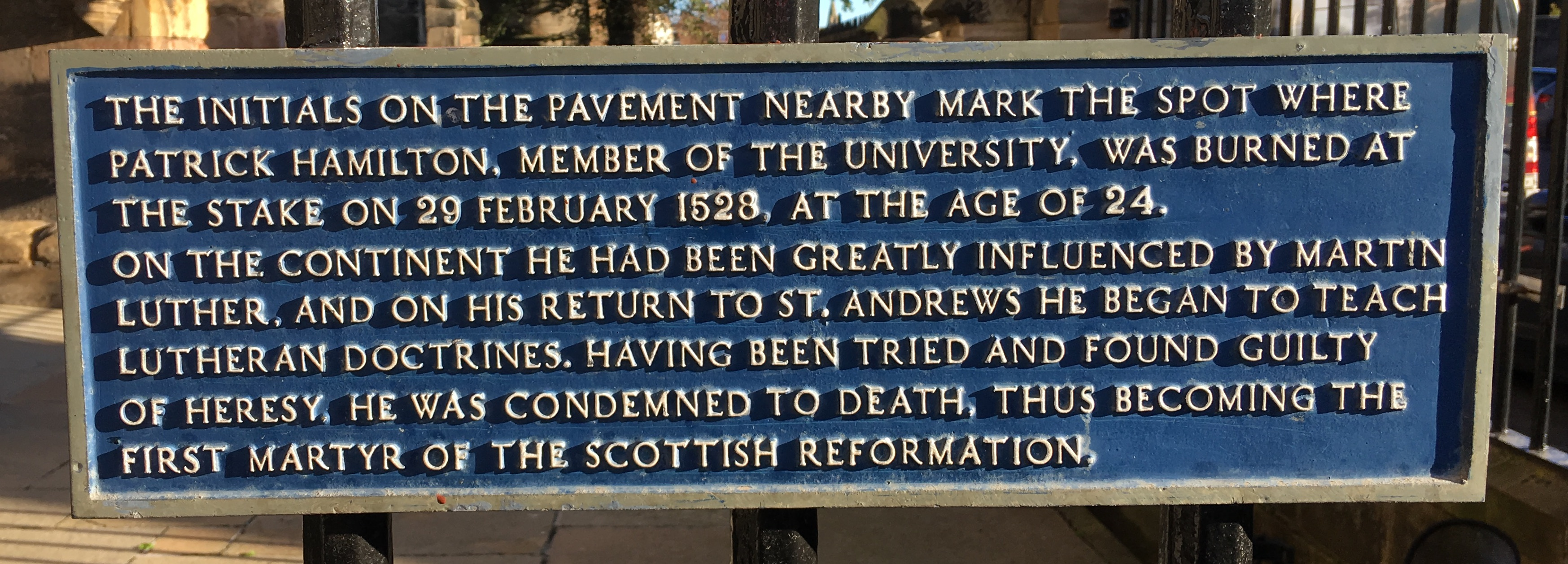 Plaque reads: "The initial on the pavement nearby mark the spot where Patrick Hamilton, member of the University, was burned at the stake on 29 February 1528, at the age of 24. On the continent he had been greatly influenced by Martin Luther, and on his return to St. Andrews he began to teach Lutheran doctorines. Having been tried and found guilty of heresy, he was condemned to death, thus becoming the first martyr of the Scottish Reformation."